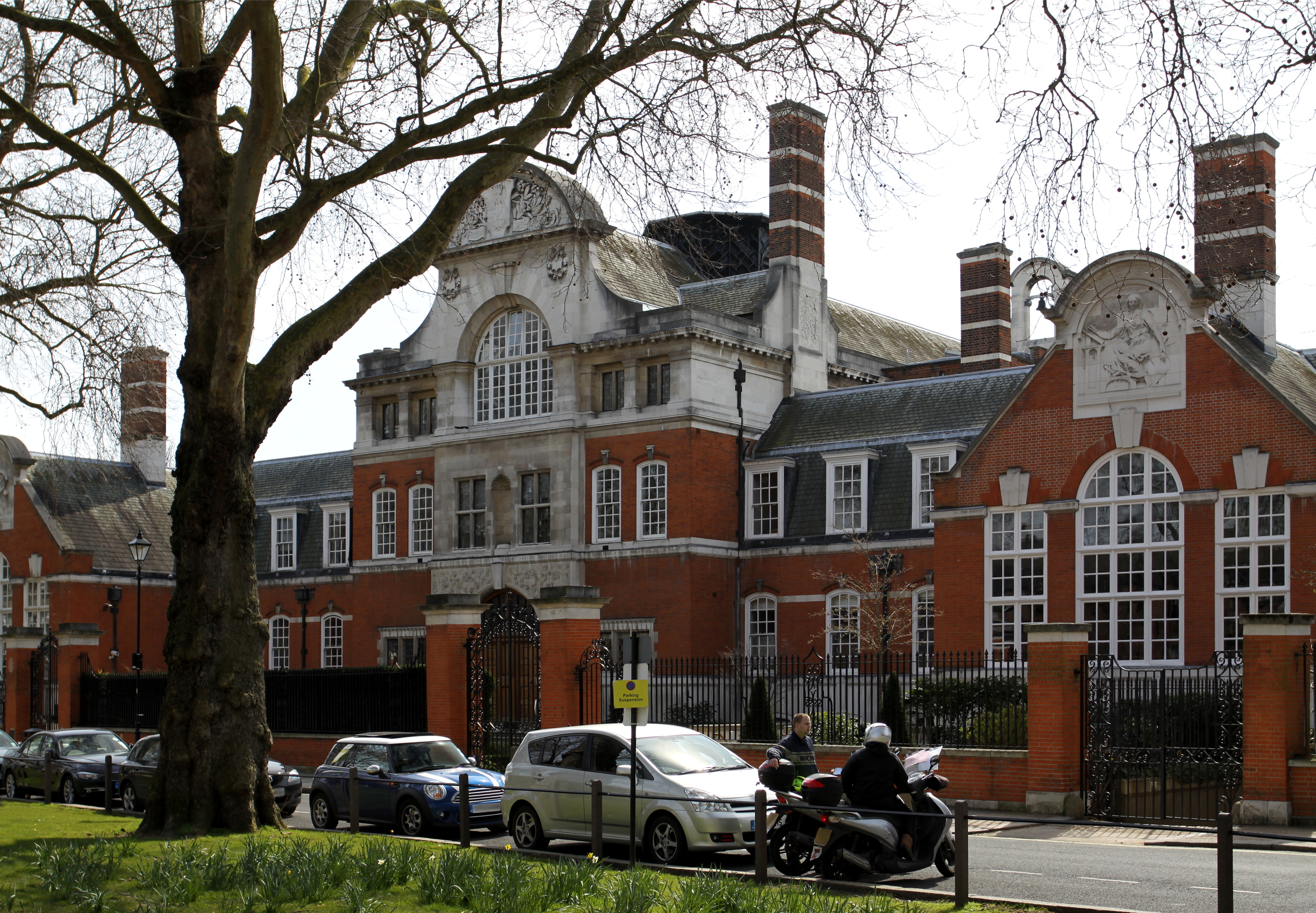 St Paul's Girls' School is an independent day school for girls, located in Brook Green, Hammersmith in the London Borough of Hammersmith and Fulham, London, England, Great Britain. The making of this file was supported by Wikimedia UK.